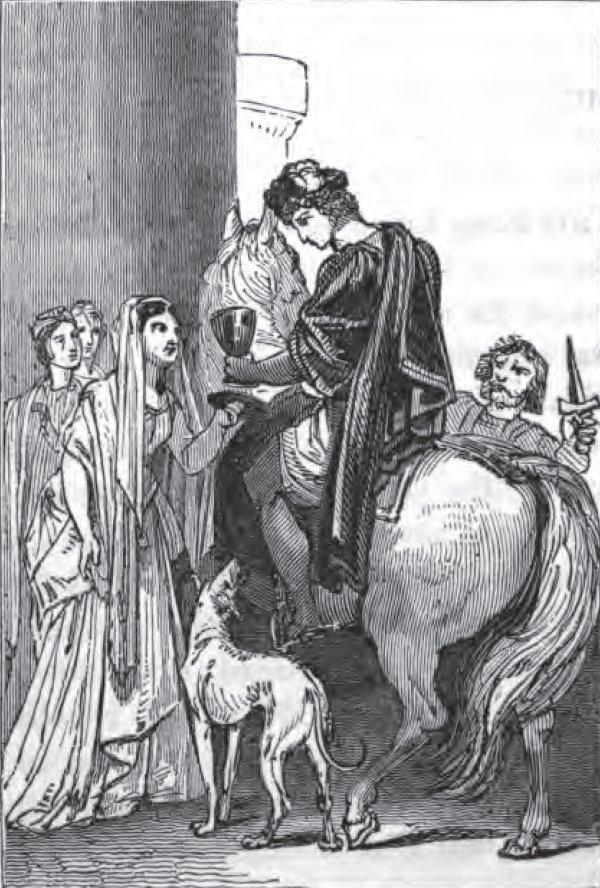 19th century imagining of the killing of King Edward the Martyr: Edward's stepmother Queen Dowager Ælfthryth hands him a goblet while the murderer approaches unseen.